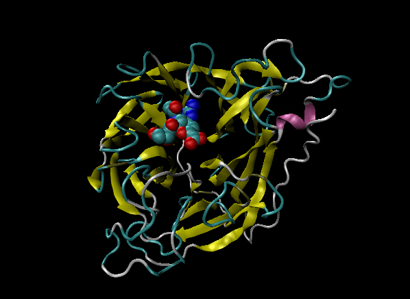 Neuraminidase monomer